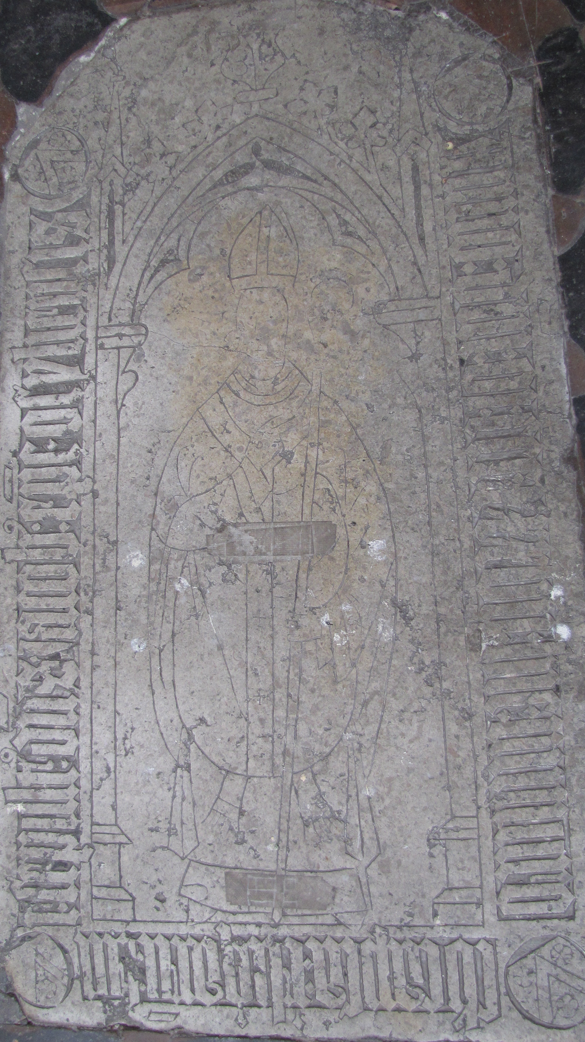 Grave stone of Jacob, bishop of Ösel-Wiek, in St. Katharinen, Lübeck